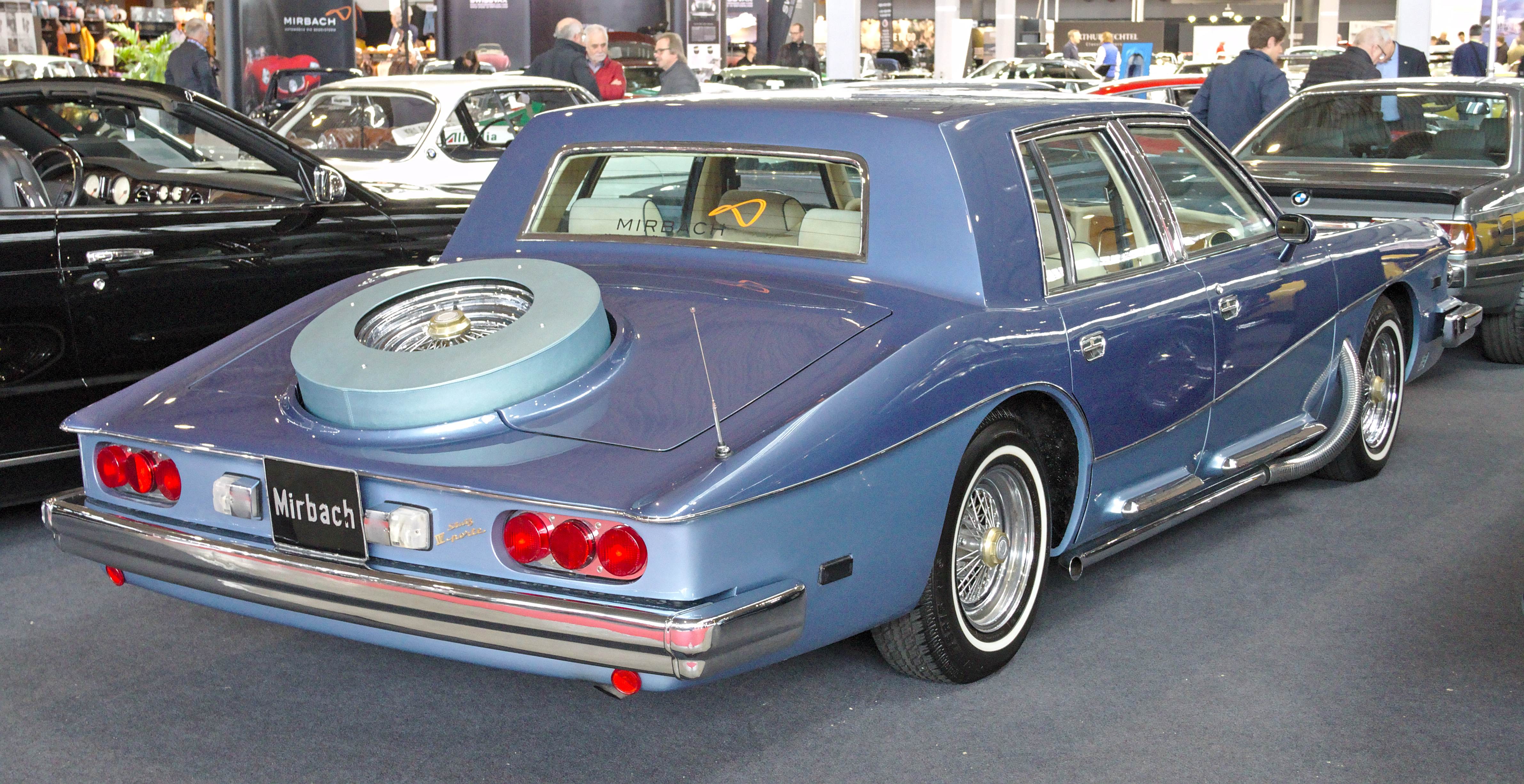 Stutz_IV_Porte at Retro Classics 2020